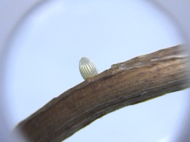 Plain tiger (Danaus chrysippus) egg on dry twig at MNP, Mumbai